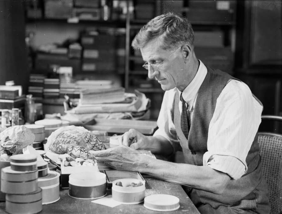 Mr T. Iredale identifying Australian land shells at the Australian Museum, Sydney, 5 April 1933